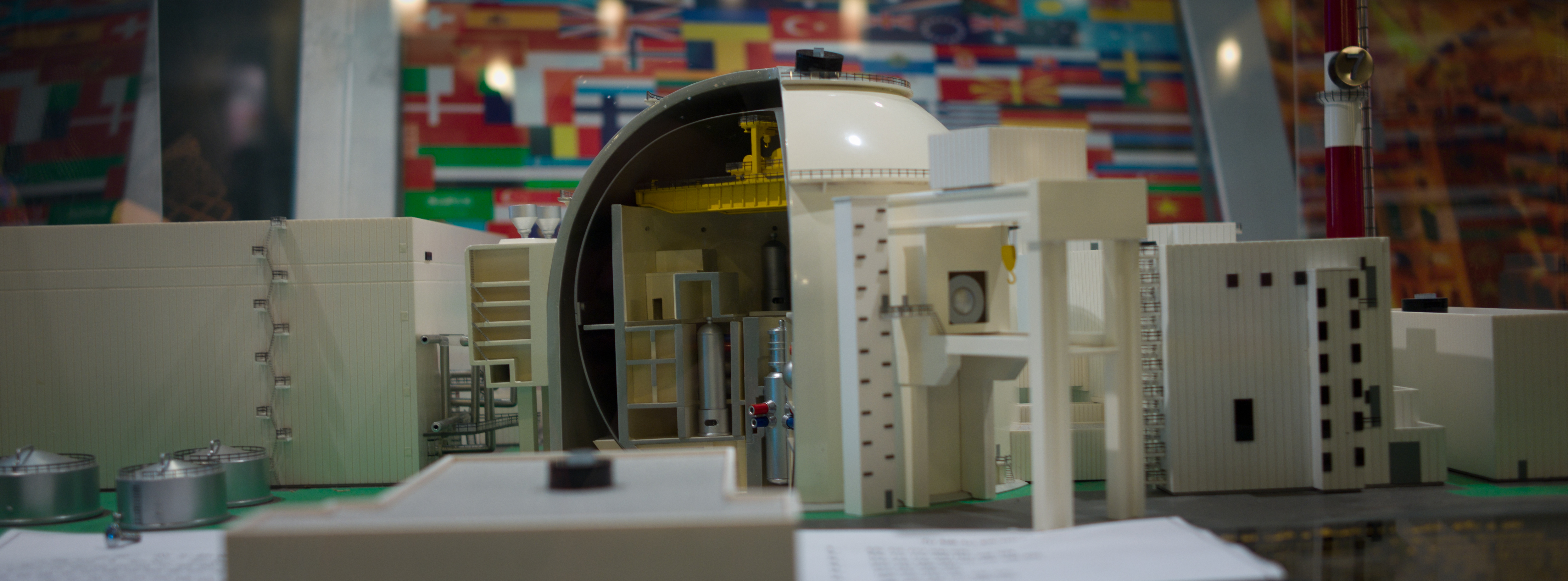 scale model of a nuclear power plant (civilian) in the Iranian pavilion